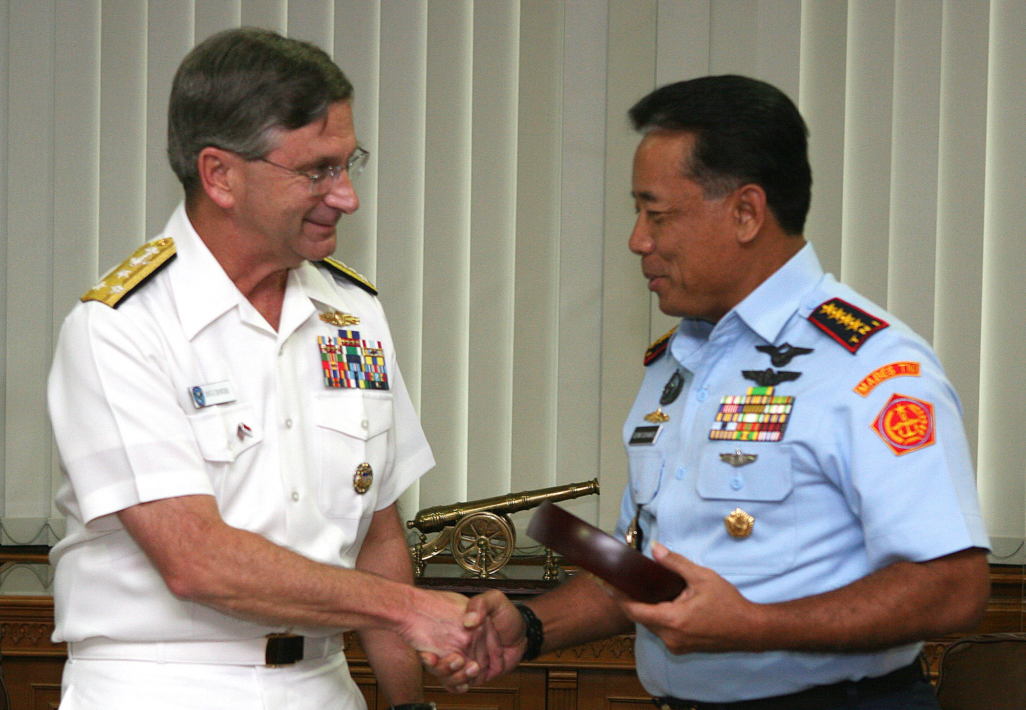 JAKARTA, Indonesia (March 8, 2007) - Commander U.S. 7th Fleet Vice Adm. Doug Crowder and Commander-in-Chief of National Defense Forces Republic of Indonesia Air Chief Marshal Djoko Suyanto shake hands. The two senior military leaders met in Indonesia's National Defense Headquarters to foster a military-to-military relationship to enhance peace, security and stability in the region. Amphibious command USS Blue Ridge (LCC 19) and embarked 7th Fleet staff arrived in Indonesia as part of a scheduled port visit. U.S. Navy photo by Mass Communication Specialist 2nd Class Matthew Schwarz (RELEASED)